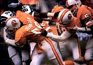 A football card from the 1986 Jeno's Pizza NFL football card stickers set of Tampa Bay Bucaneers' linebacker Cecil Johnson tackles Philadelphia Eagles' running back Leroy Harris during the 1979 NFC Divisional Playoff Game on December 29, 1979. The card is numbered #20 in the set. The back of the card reads: TAMPA BAY: FROM WORST TO FIRST Tampa Bay linebacker Cecil Johnson leads a defensive charge that smothers Eagles' running back LeRoy Harris, as the Bucaneers stop Philadelphia 24-17 in their 1979 NFC Divisonal Playoff Game. Tampa Bay, which won the Central Division title in 1979 after finishing last the previous three years, held the Eagles to just 48 yards rushing.